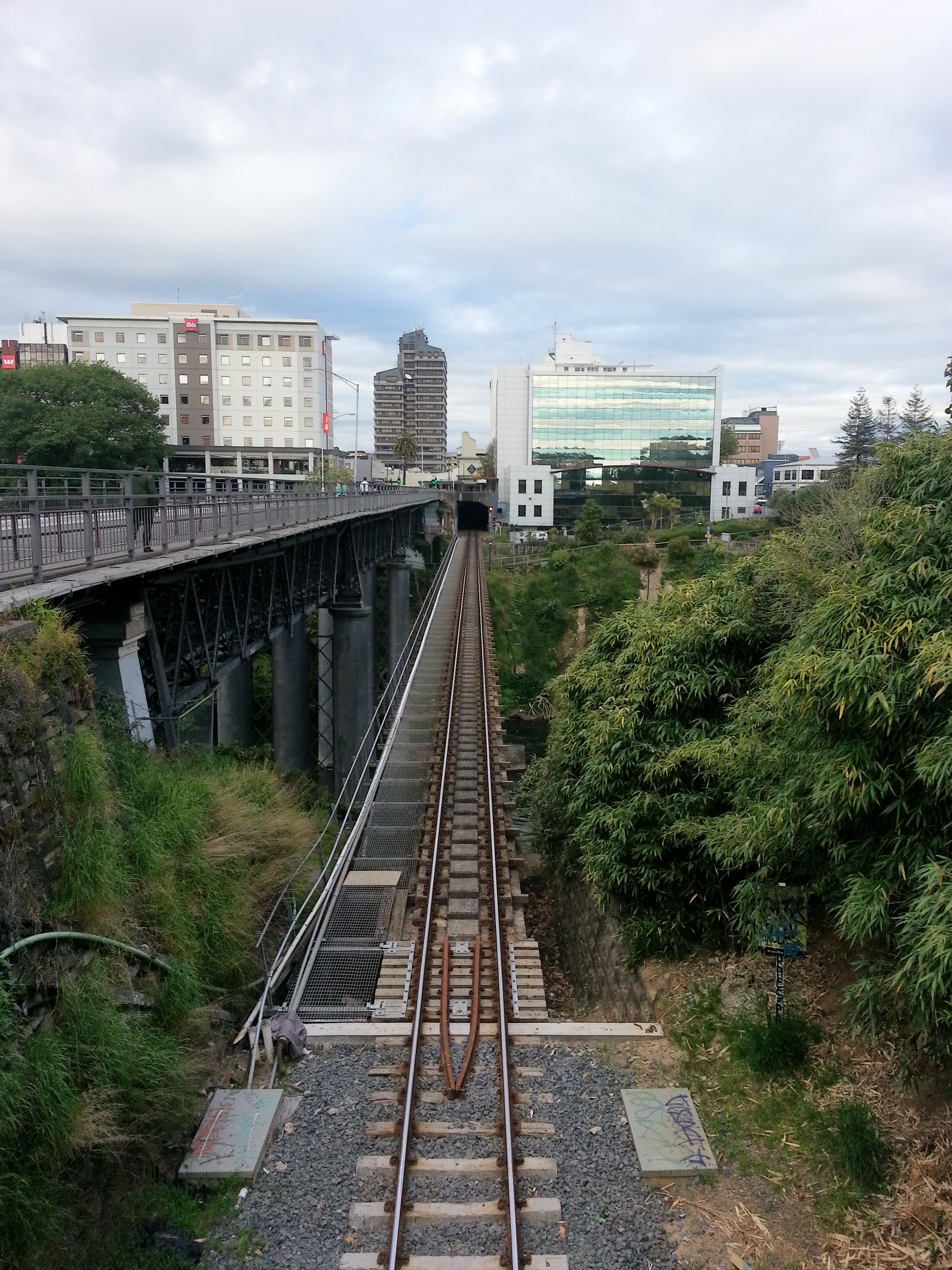 Claudelands Bridge (new railway bridge), Hamilton city, New Zealand